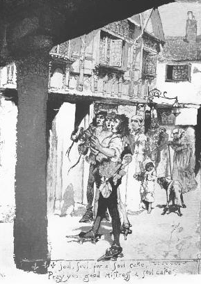 The Christian practice of souling on All Hallows' Eve, also known as Halloween, in an English town. The photograph is taken from "St. Nicholas: An Illustrated Magazine for Young Folks", December 1882, p. 93 The magazine states that the rich gave soul cakes to the poor on Halloween; in return the recipients prayed for the souls of the givers and their friends. It further says that 'this custom became so favored in popular esteem that, for a long time, it was a regular observance in the country towns of England for small companies to go about from parish to parish at Halloween, begging soul-cakes by singing under the windows some such verse as this: "Soul, soul, for a soul-cake: Pray you, good mistress, a soul-cake!"' This verse is inscribed on the bottom of this photograph. As the text notes, this practice was also performed on Christmas.